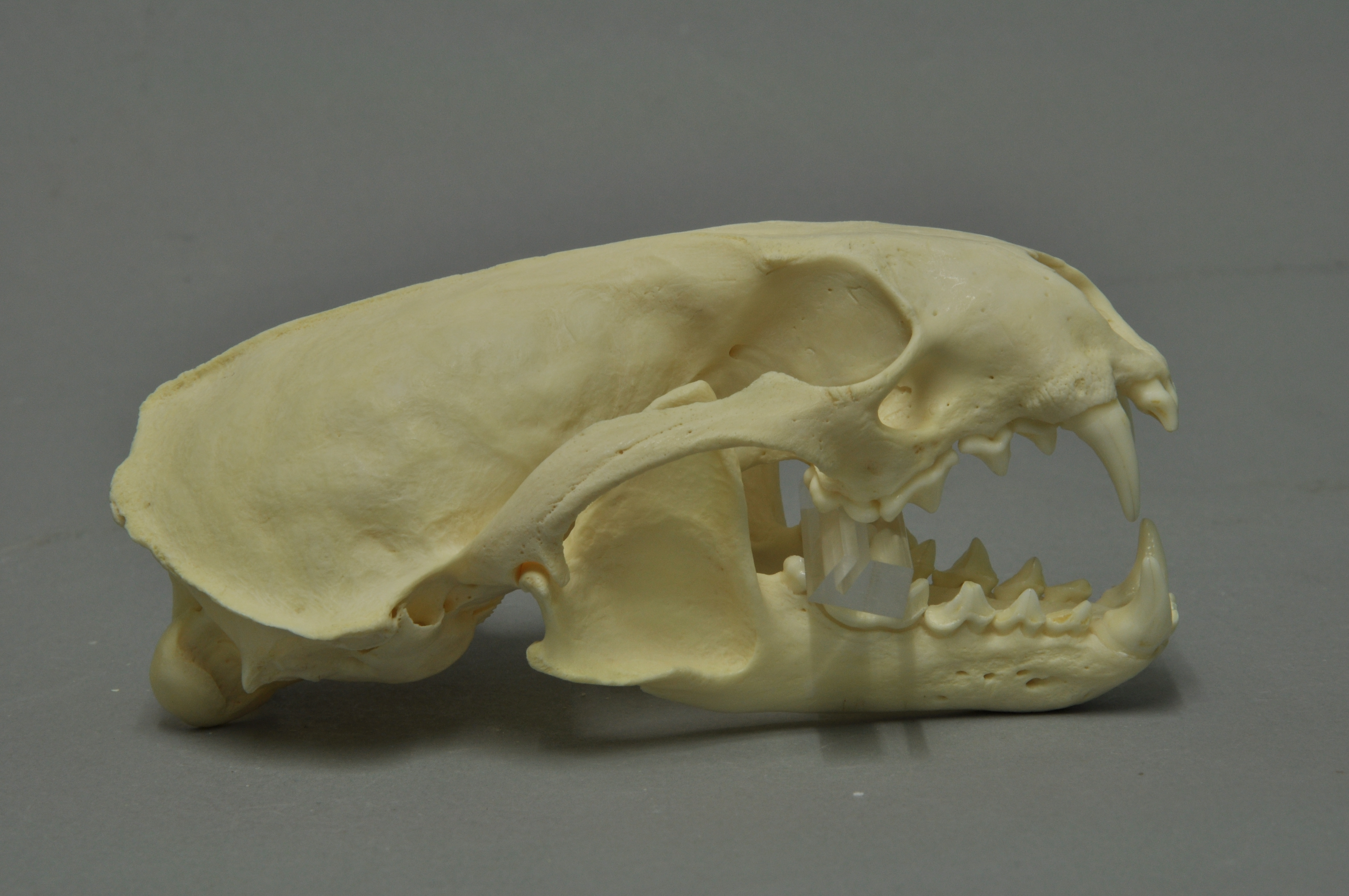 European otter Lutra lutra , skull, Coll. Museum Wiesbaden